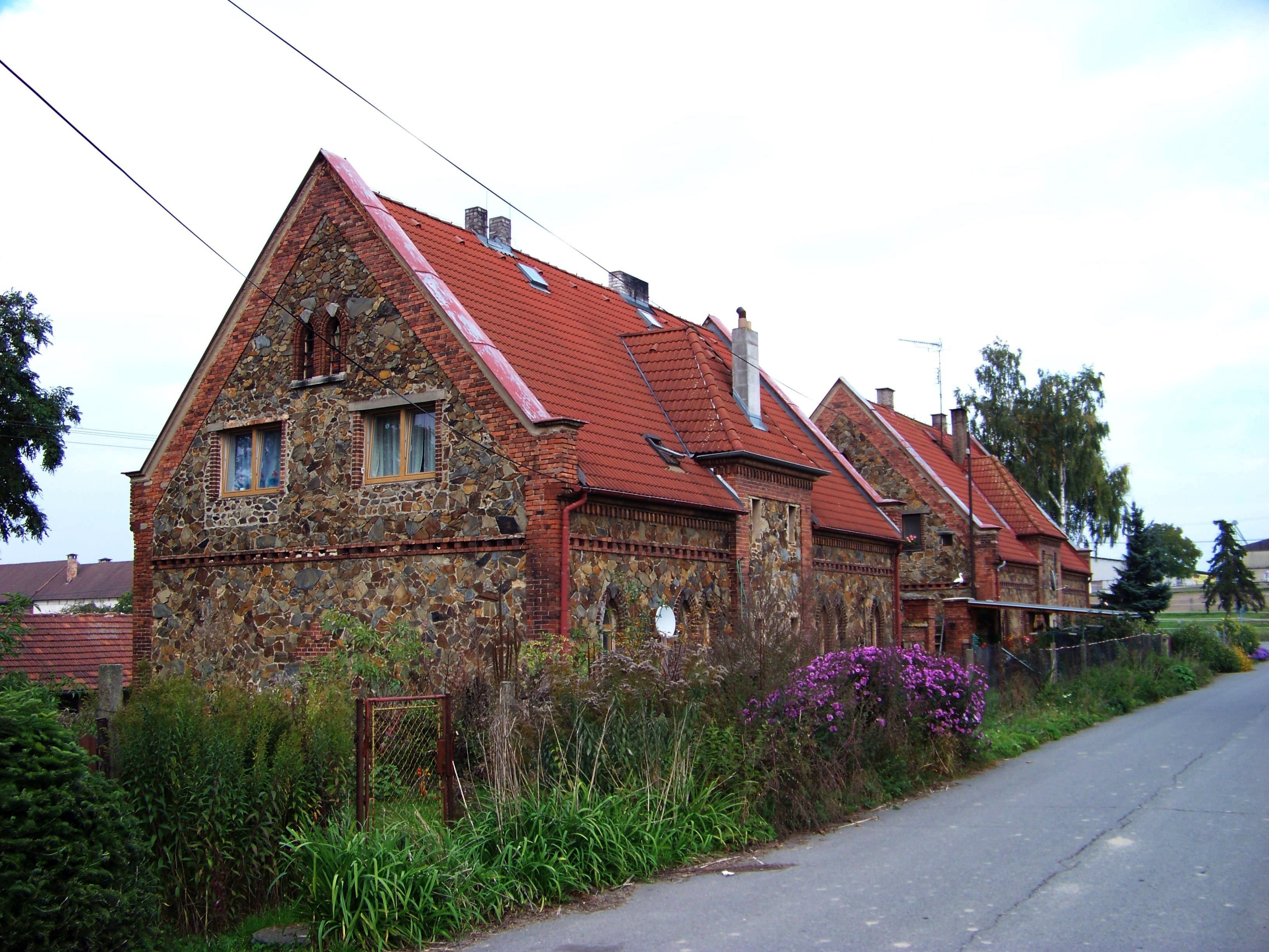 Prague-Uhříněves, Czech Republic. Netluky 235, 234.